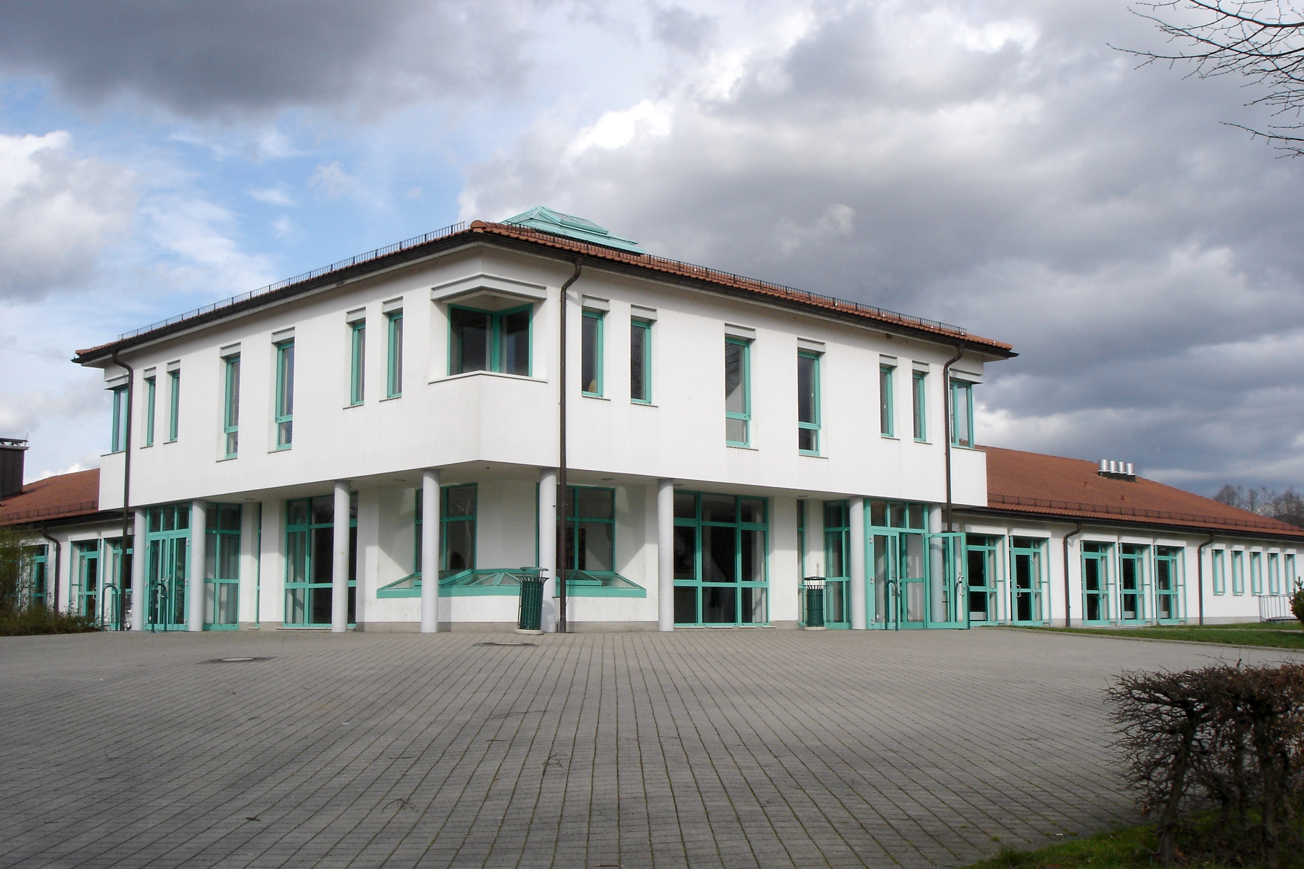 Eventhall in Mörlenbach/Germany